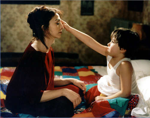 Marina (Anna Bonaiuto) and Giovanni (Andrej "Kolya" Chalimon) in First the Music, Then the Words